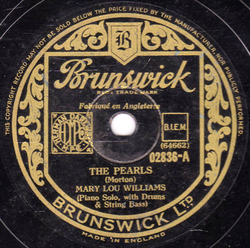 Mary Lou Williams: The Pearls